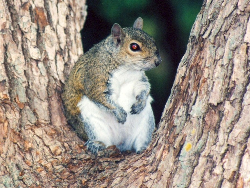 Squirrel in tree, Taylor Lake Park, Largo, Florida. Canon Rebel 2000 (film) with EOS